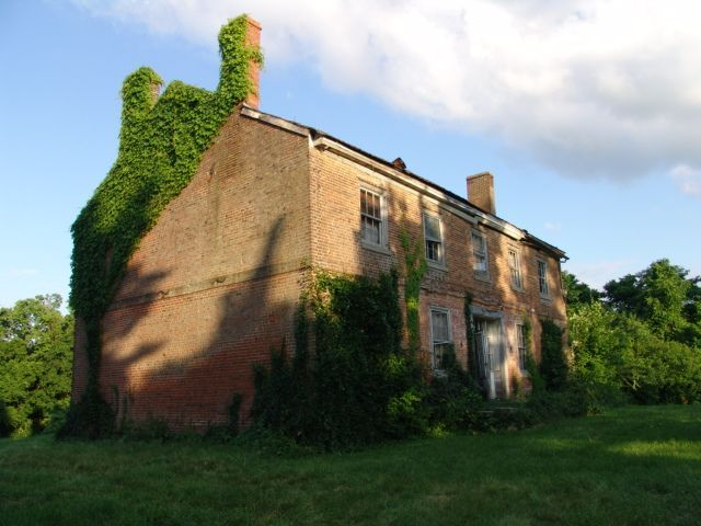 This is a photograph of the Waveland House in Danville, Kentucky as of June 3, 2013.